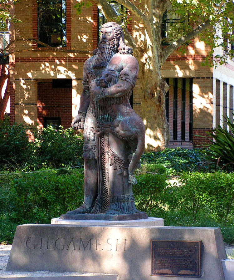 Statue of Gilgamesh, University of Sydney, Sydney, NSW, Australia